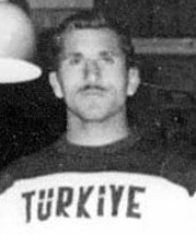 Freestyle Wrestling at the 1952 Summer Olympics 62 kg podium